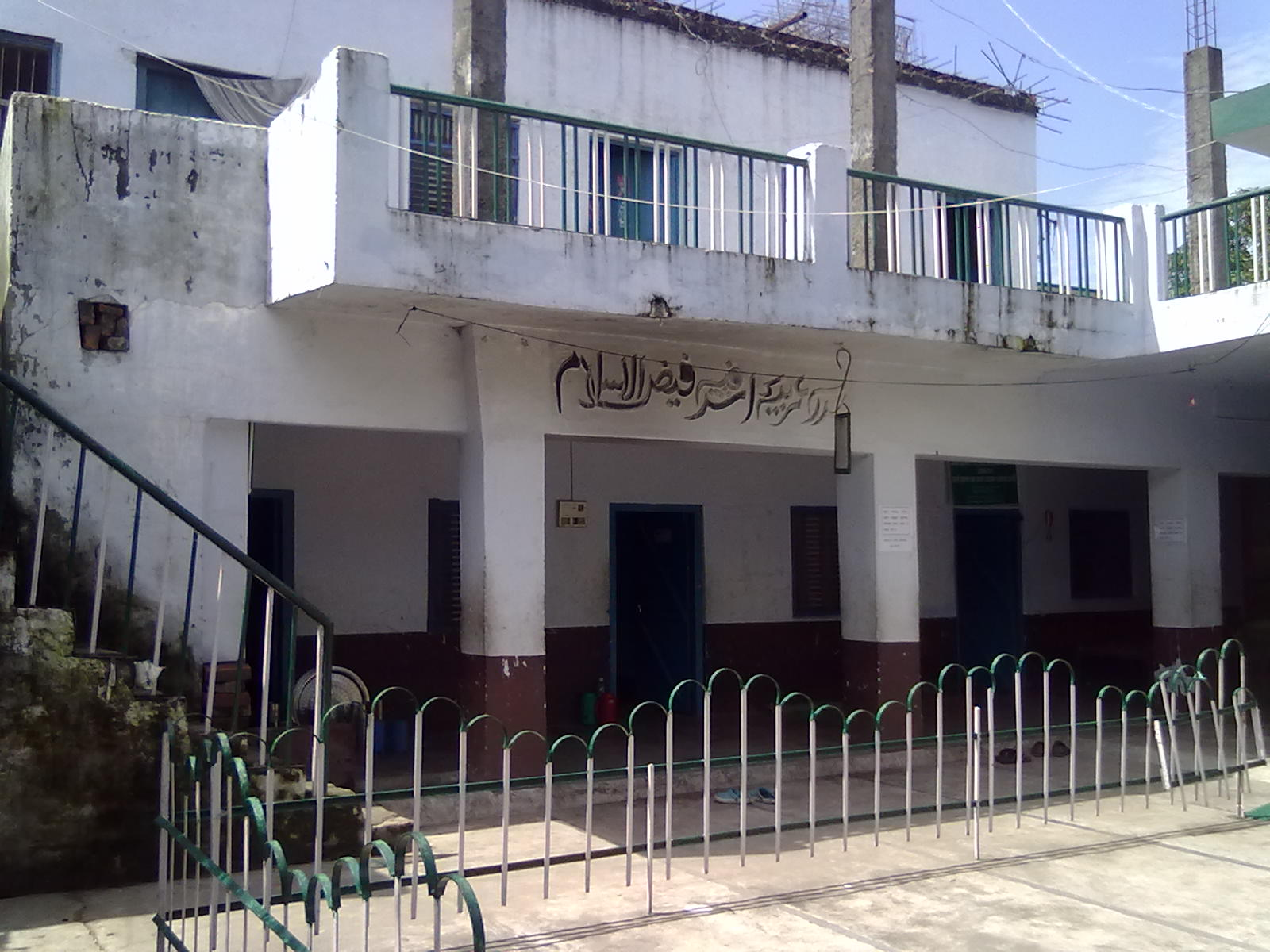 Madarsa Arabiya Asharfiya Faizul Islam